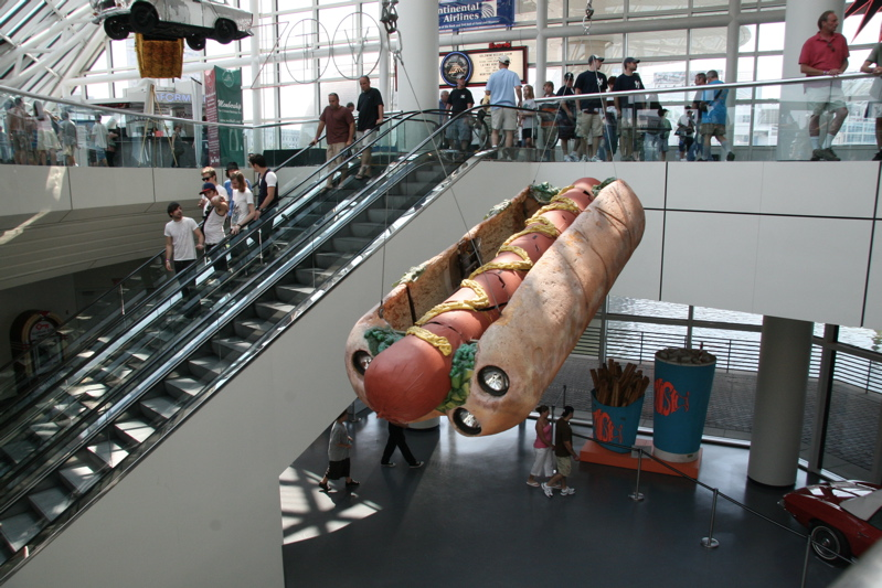 The lobby of the Rock and Roll Hall of Fameat the rock and roll hall of fame